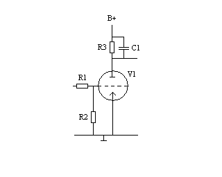 Radio Demodulator